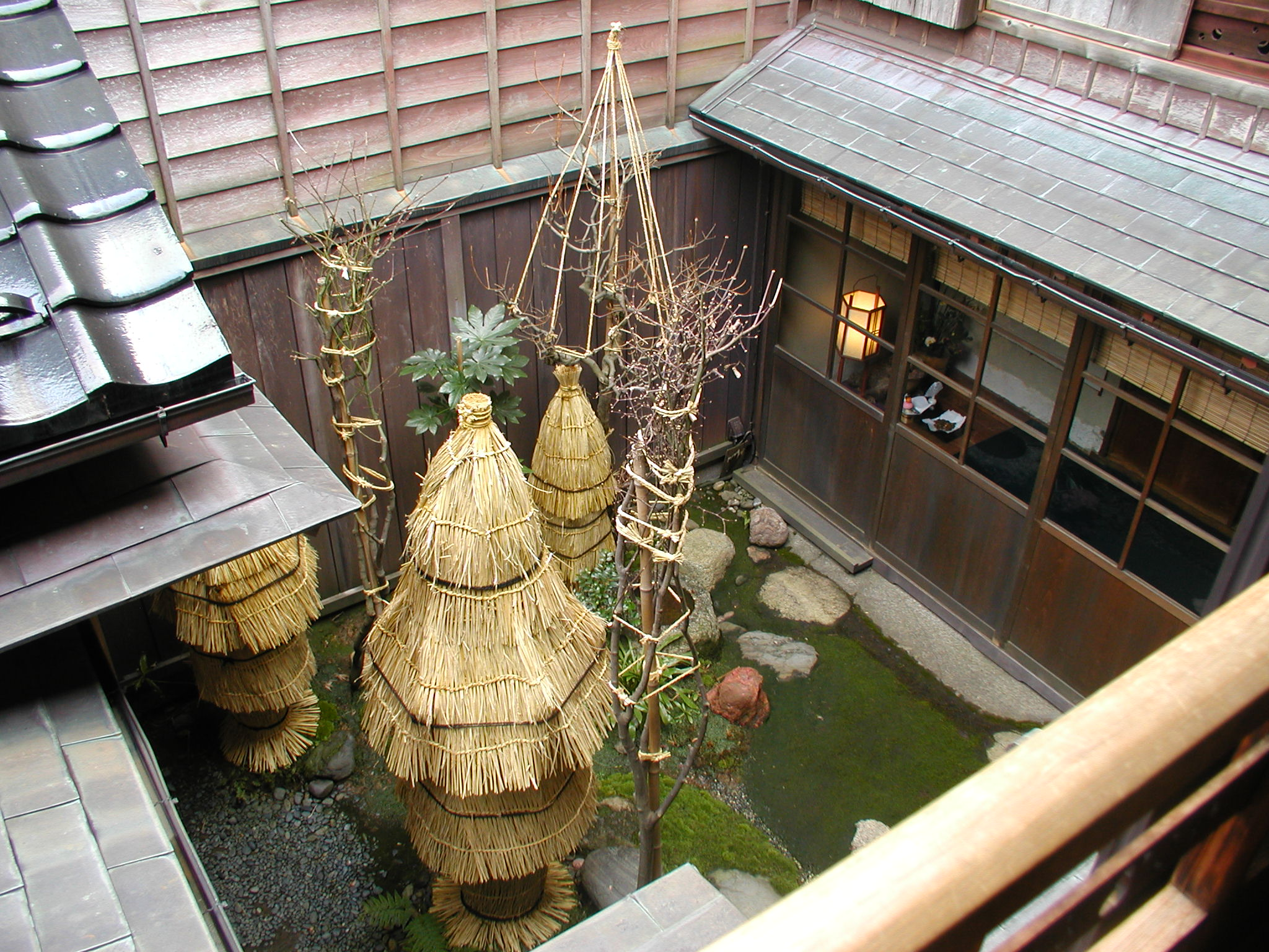 Tsuboniwa (坪庭) garden in Shima (志摩), a former geisha house in Kanazawa. Trees are covered in straw matting to protect them from snow.